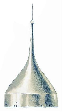 Shelom helm